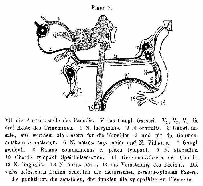 illustration from Erno Jendrassik 1896 work